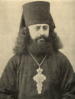 Archimandrite Raphael (Raphael of Brooklyn) upon his arrival in America.